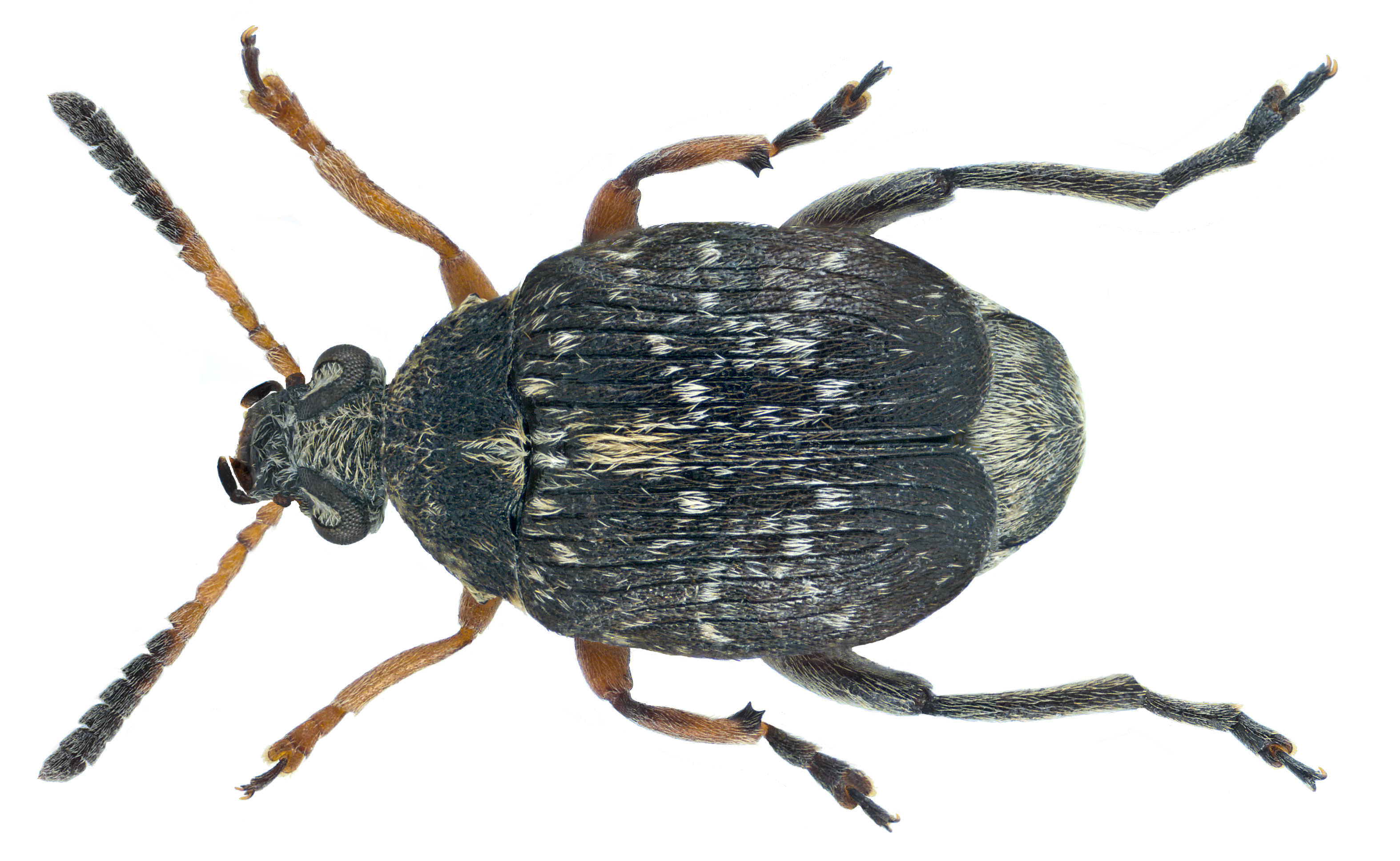 Family: Bruchidae Size: 3,3 mm (2,8 to 3,5 mm) Origin. Europe Ecologie: Development on Vicia species Location: Germany, Bavaria, Upper Franconia, Selbitz, Dietscha valley leg.det. U.Schmidt, 23.VI.2004 Photo: U.Schmidt, 2015